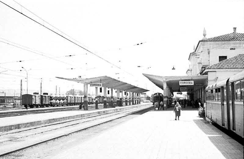 Former train station of Córdoba, during 1960s or 1970s.